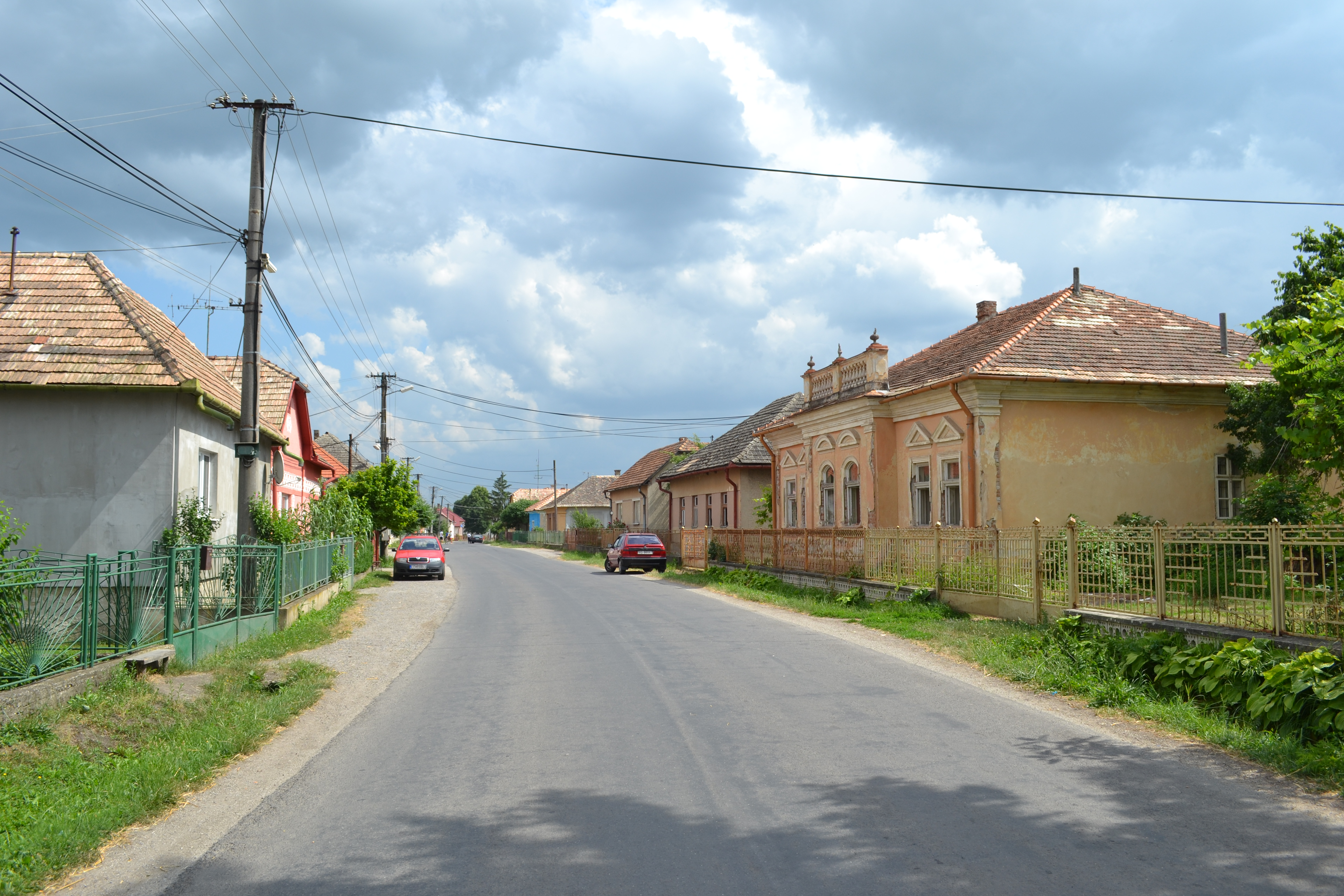 Street of the village Radnovce